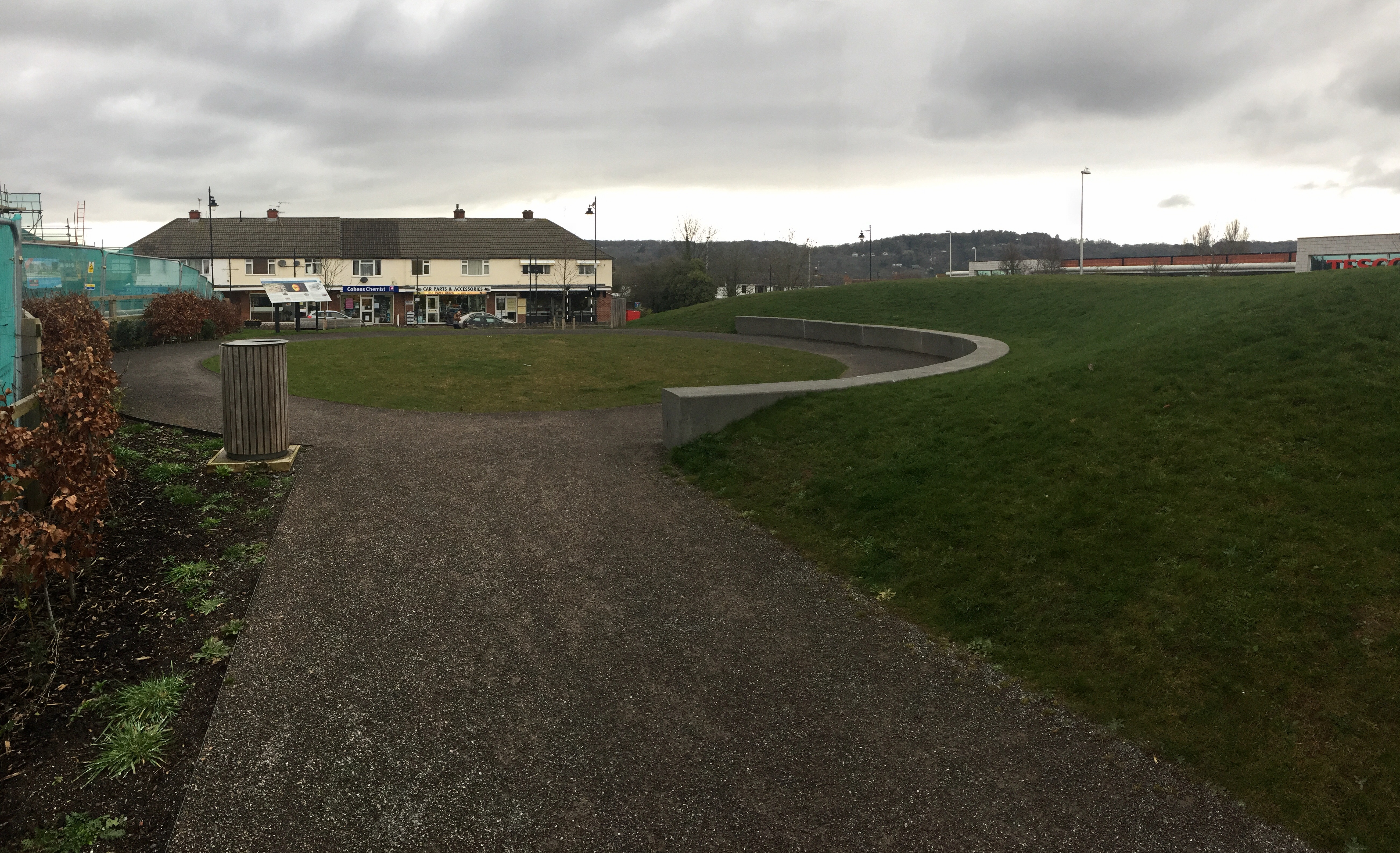 A panorama of the new green space, opened in 2015, on the site of the former glassworks in Nailsea.